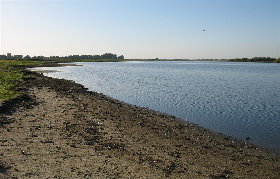 View to Pripyat river near the castle hill, Turov, Gomel province, Belarus.